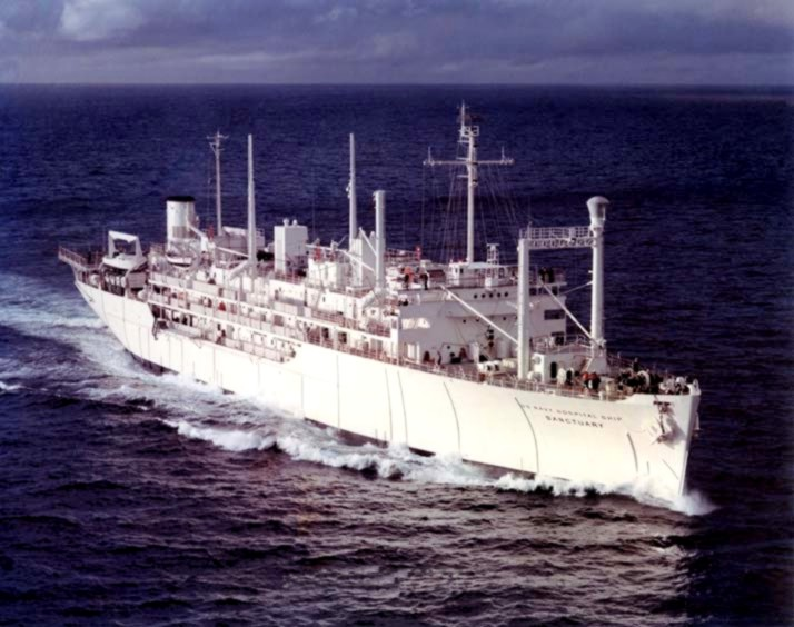 The U.S. Military Sealift Command hospital ship USNS Sanctuary (T-AH-17) underway, circa 1973.